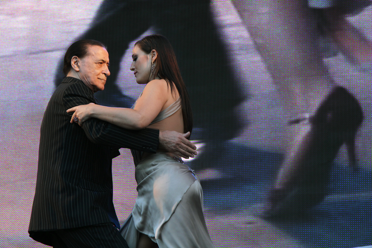 Master Argentine tango dancer Juan Carlos Copes and his daughter, Johanna, perform at the 2011 Tango Day, in Buenos Aires. Photo: Estrella Herrera